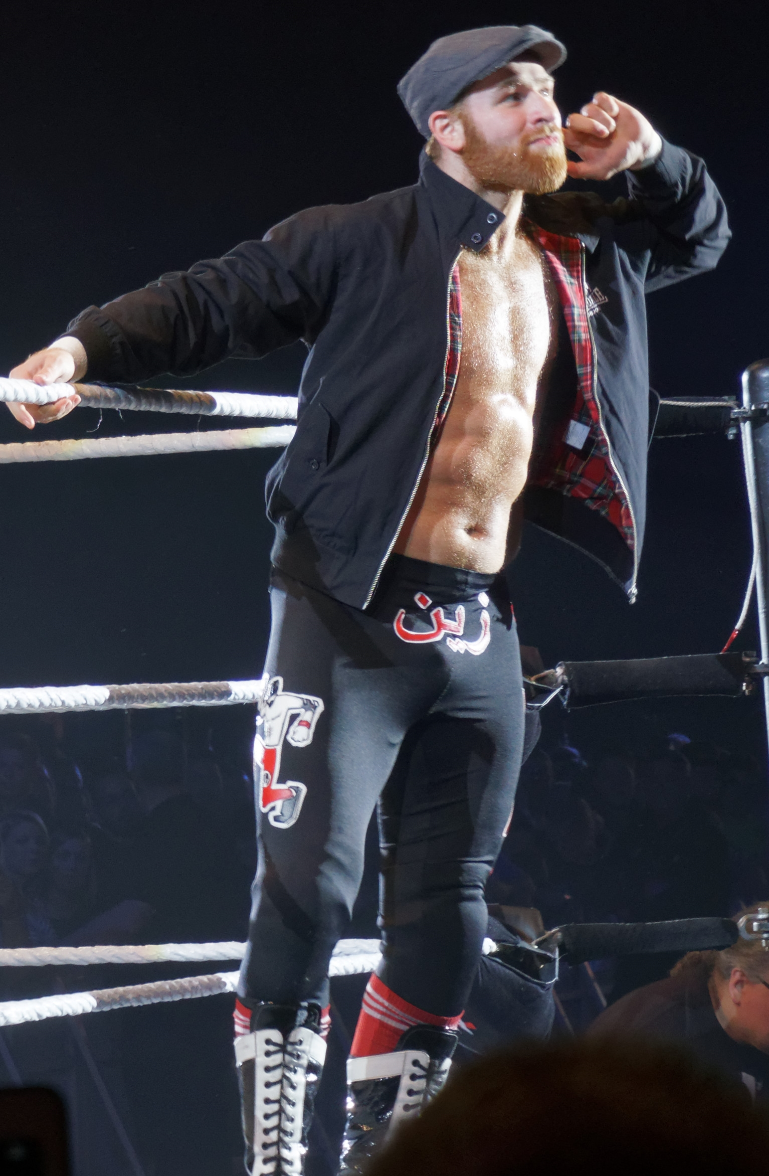 Sami Zayn in April 2016